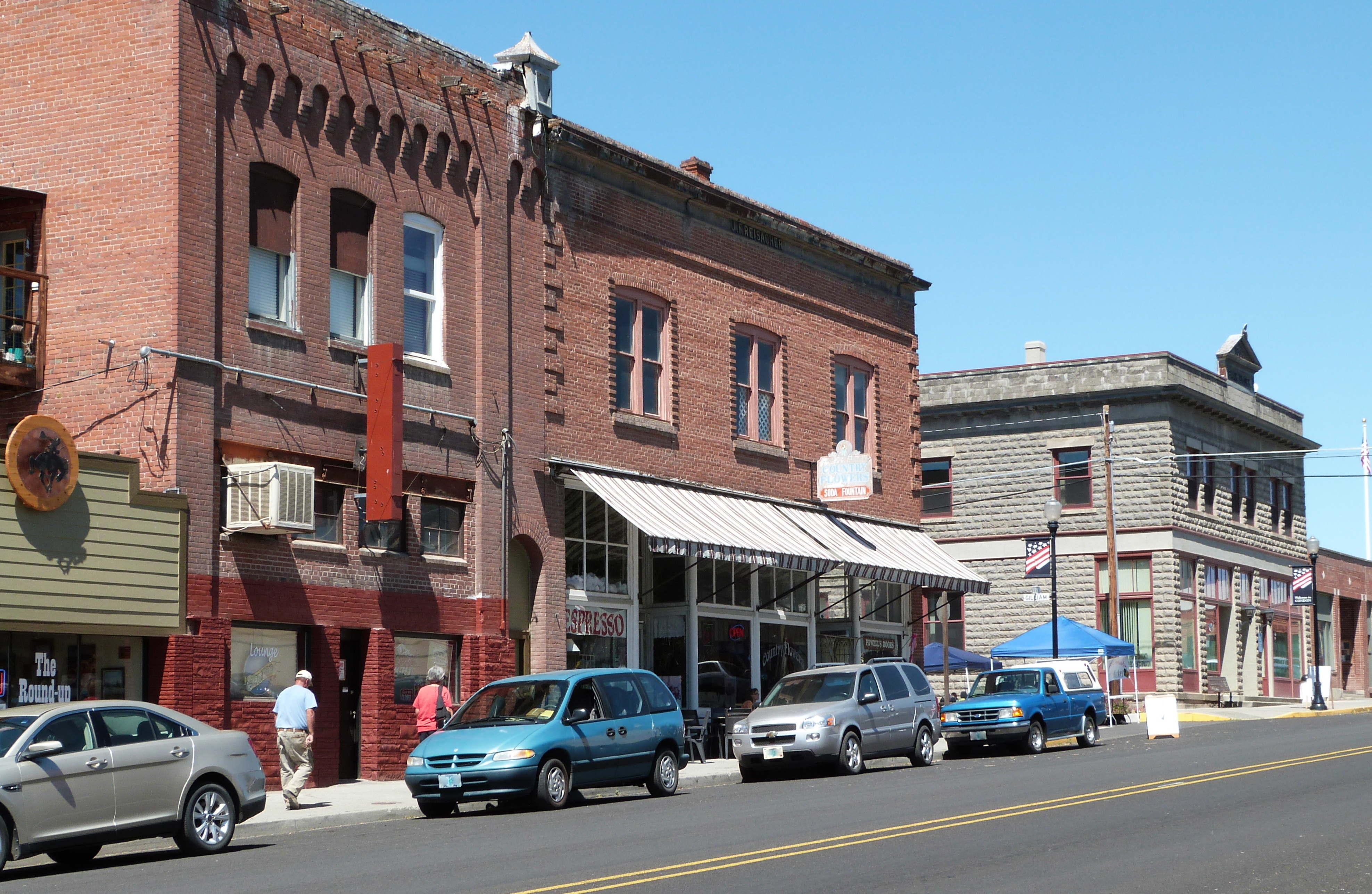 Historic buildings along Main Street in Condon, Oregon, United States. The buildings' historic names, from left to right: IOOF Hall, J.F. Reisacher Building, (Gilliam Street), Bank Block. All three buildings are primary contributing resources within the Condon Commercial Historic District, listed on the US National Register of Historic Places.